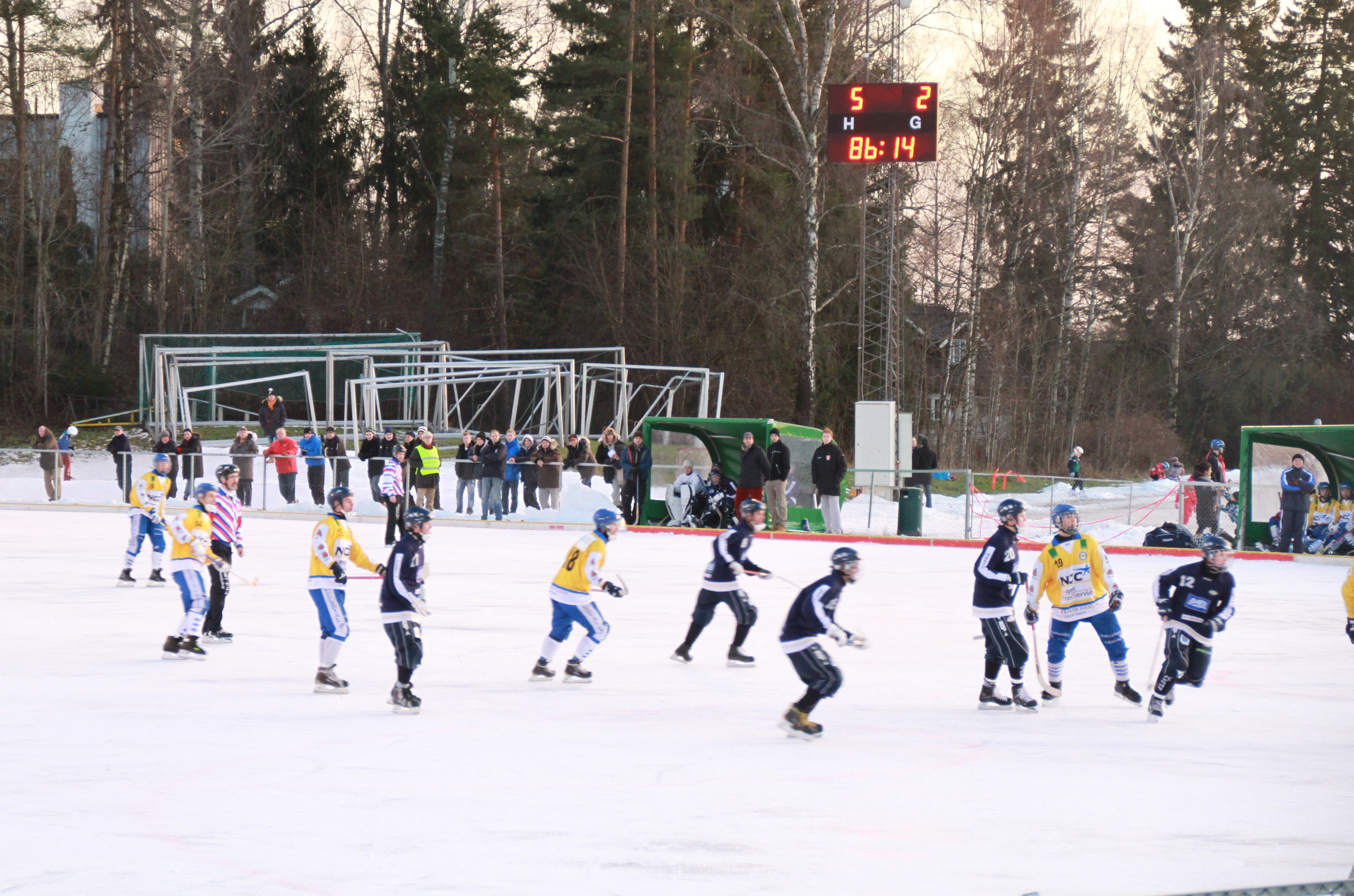 Gressbanen bandy arena in Holmen, Oslo (Norway). Teams are Ready (blue) and Ullevaal Bandy (yellow).